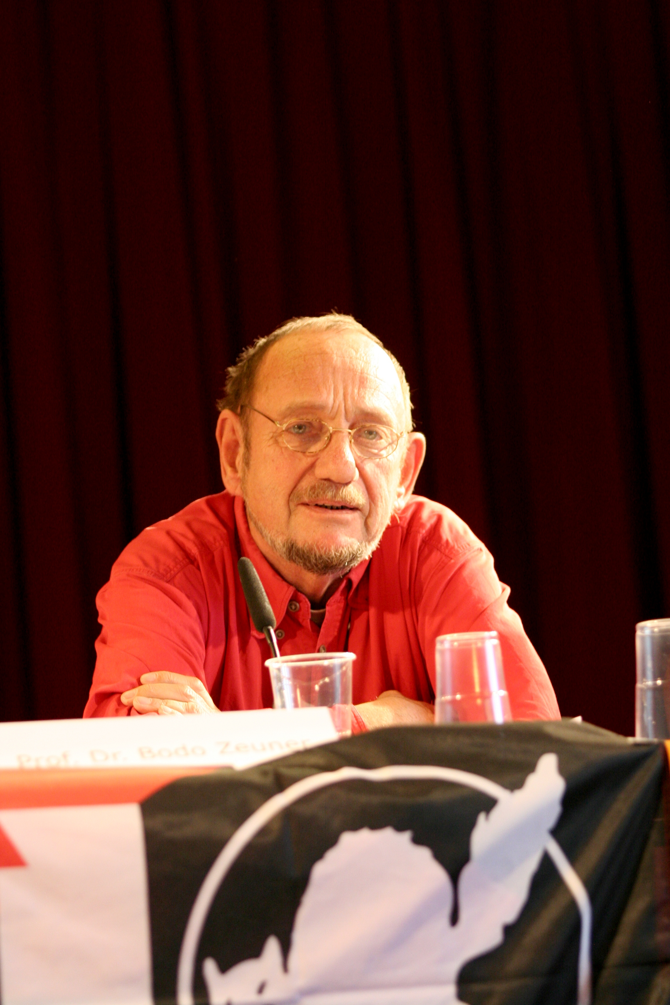 Bodo Zeuner at a panel discussion of the FAU in Berlin